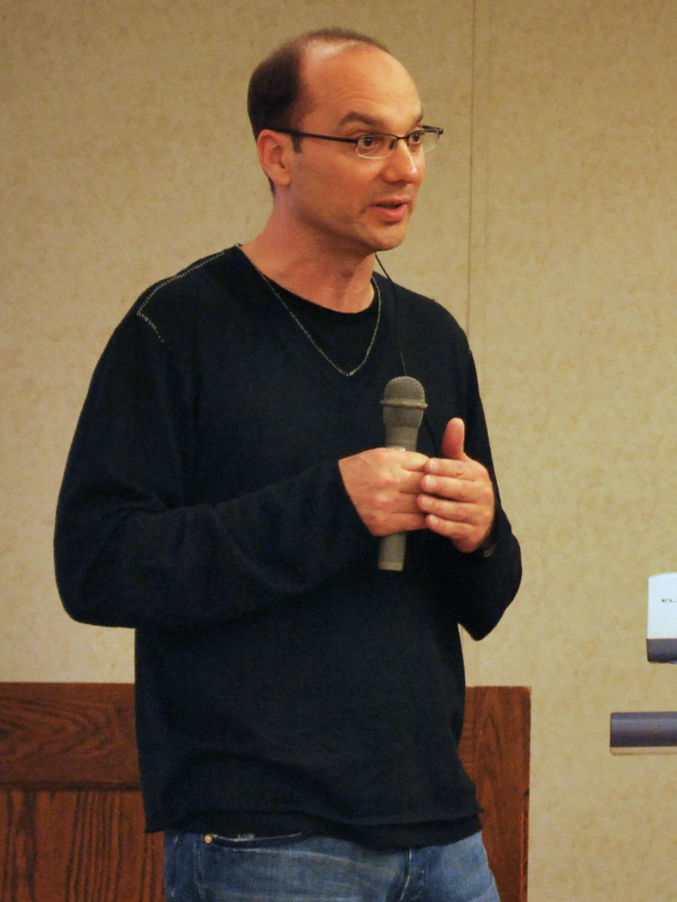 2008 Google Developer Day in Japan - Press Conference: Andy Rubin.